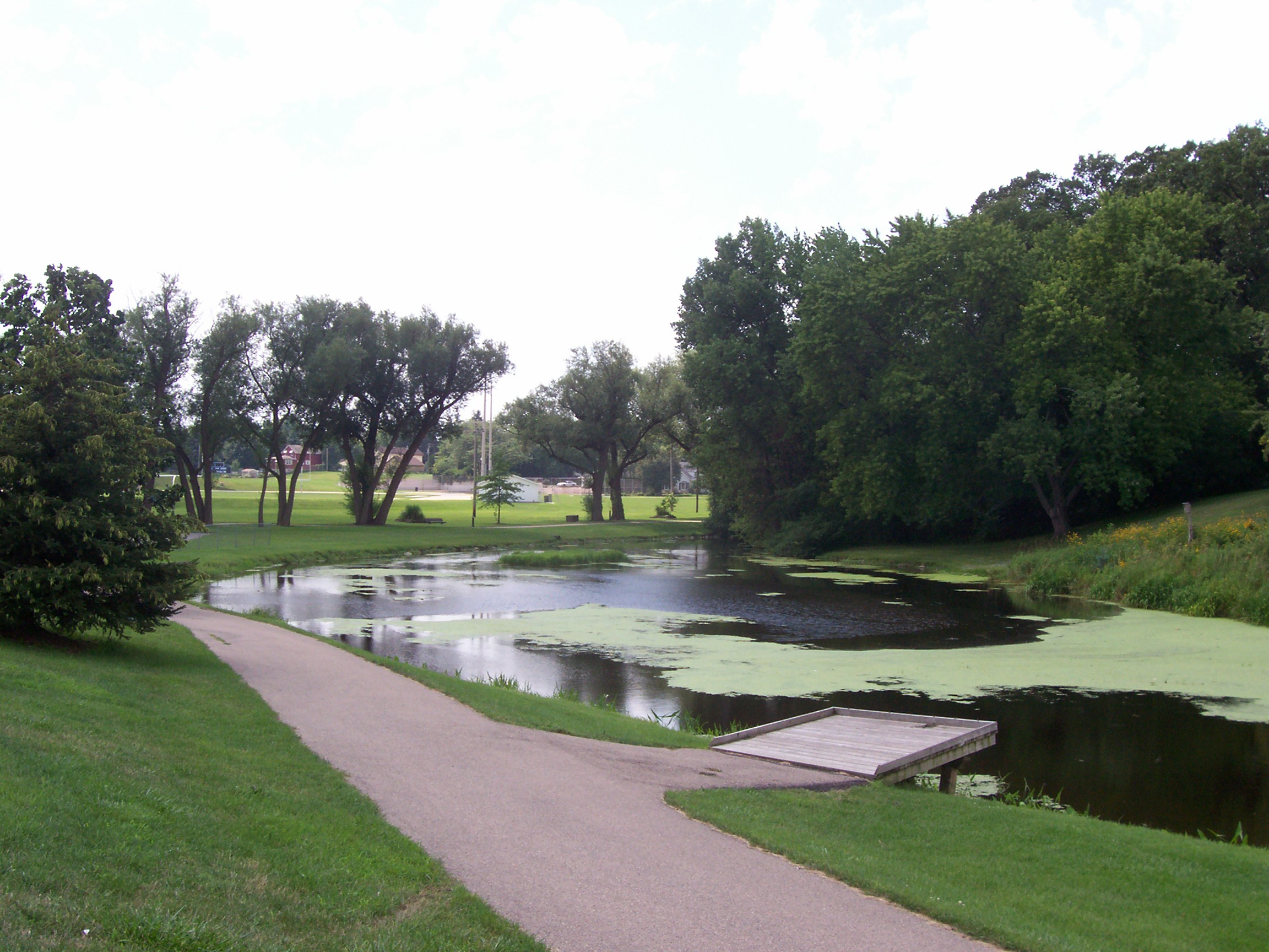 The Manitowoc River in Chilton, Wisconsin, USA. I took this image myself on August 1, 2006.